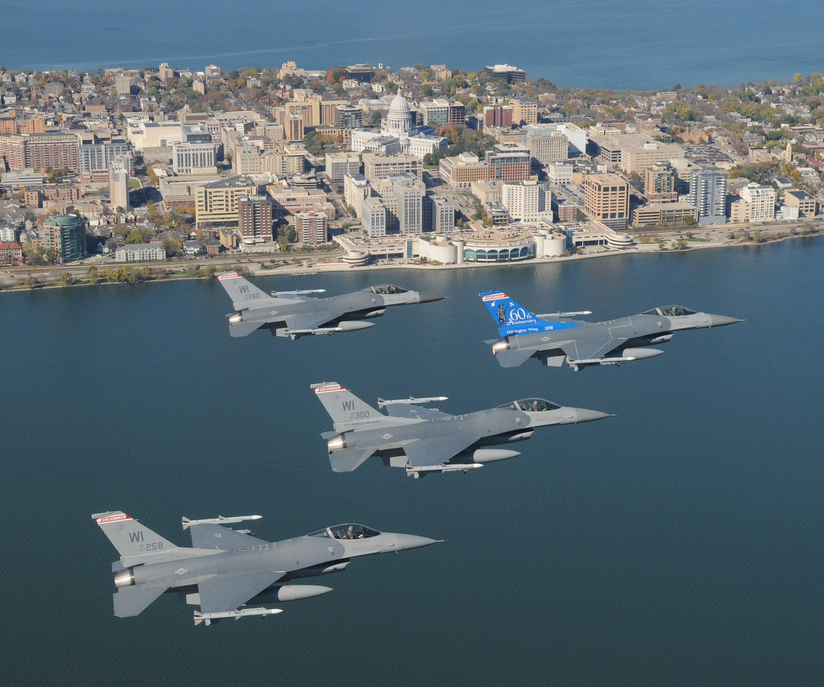 Wisconsin ANG F-16 Fighting Falcons over Madison. A four ship of F-16C from the 115th Fighter Wing, Wisconsin Air National Guard over Madison, Wisconsin on October 18, 2008. In flight lead is aircraft 87-278 with a unique tail flash that was designed to celebrate the unit's 60th Anniversary.